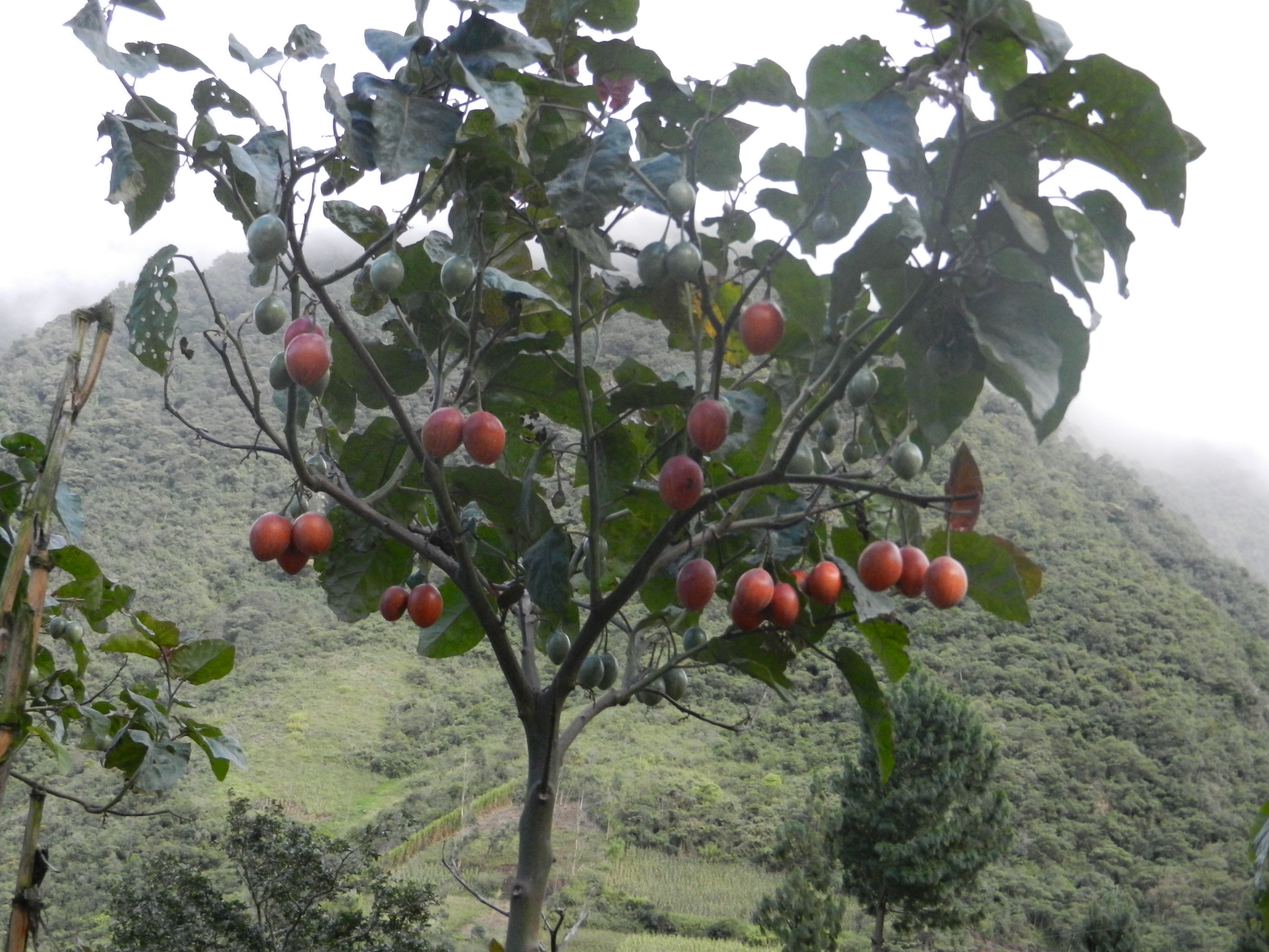 Tree tomatoes - typical crop in the Andes in Ecuador